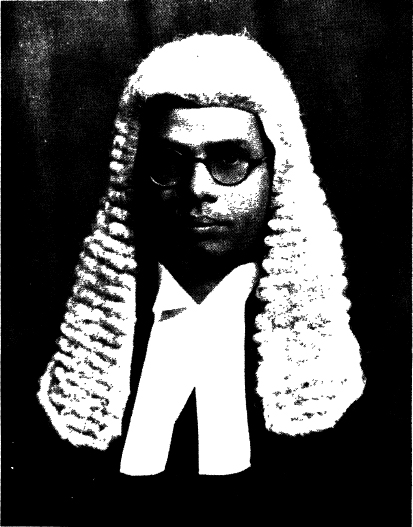 Portrait of R. K. Shanmukham Chetty